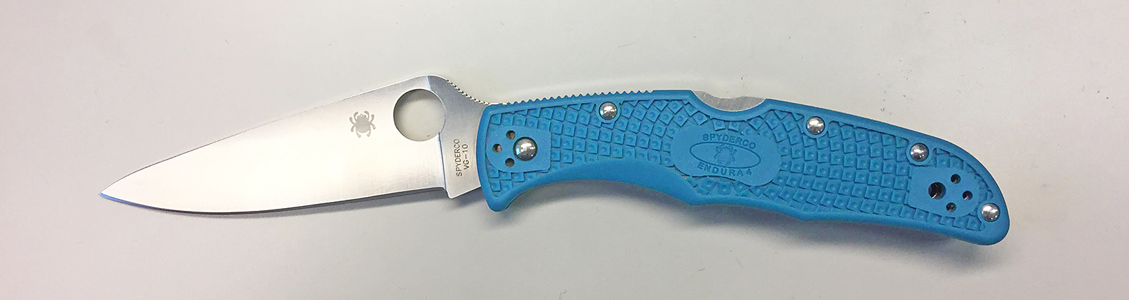 Spyderco Endura 4 pocket knife with blue scales